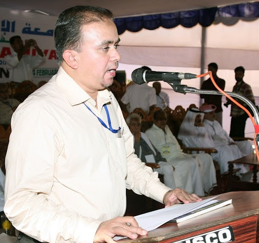 Dr.Abdu Salam Ahmed